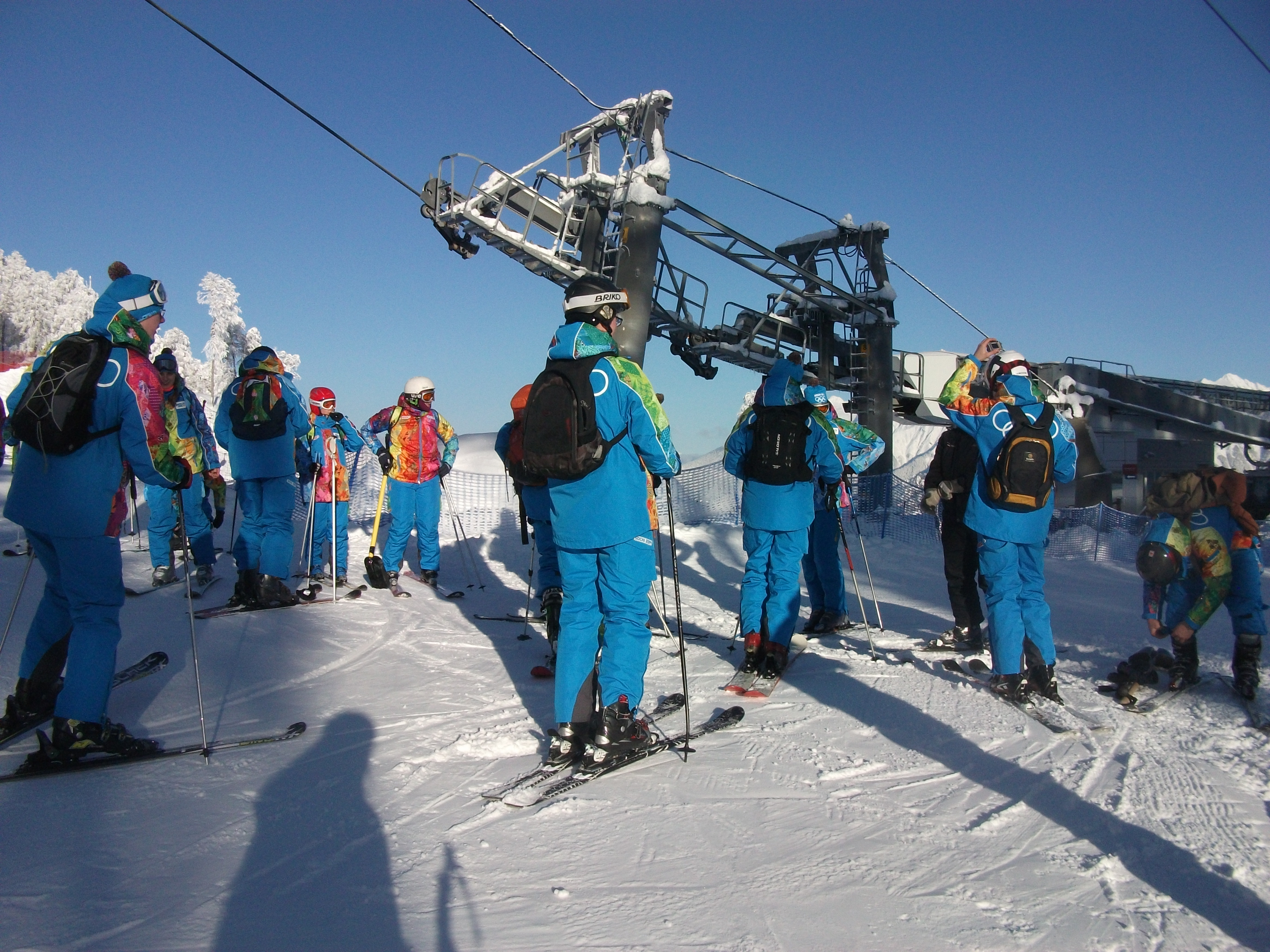 Volunteers go to work on the Rosa Khutor complex